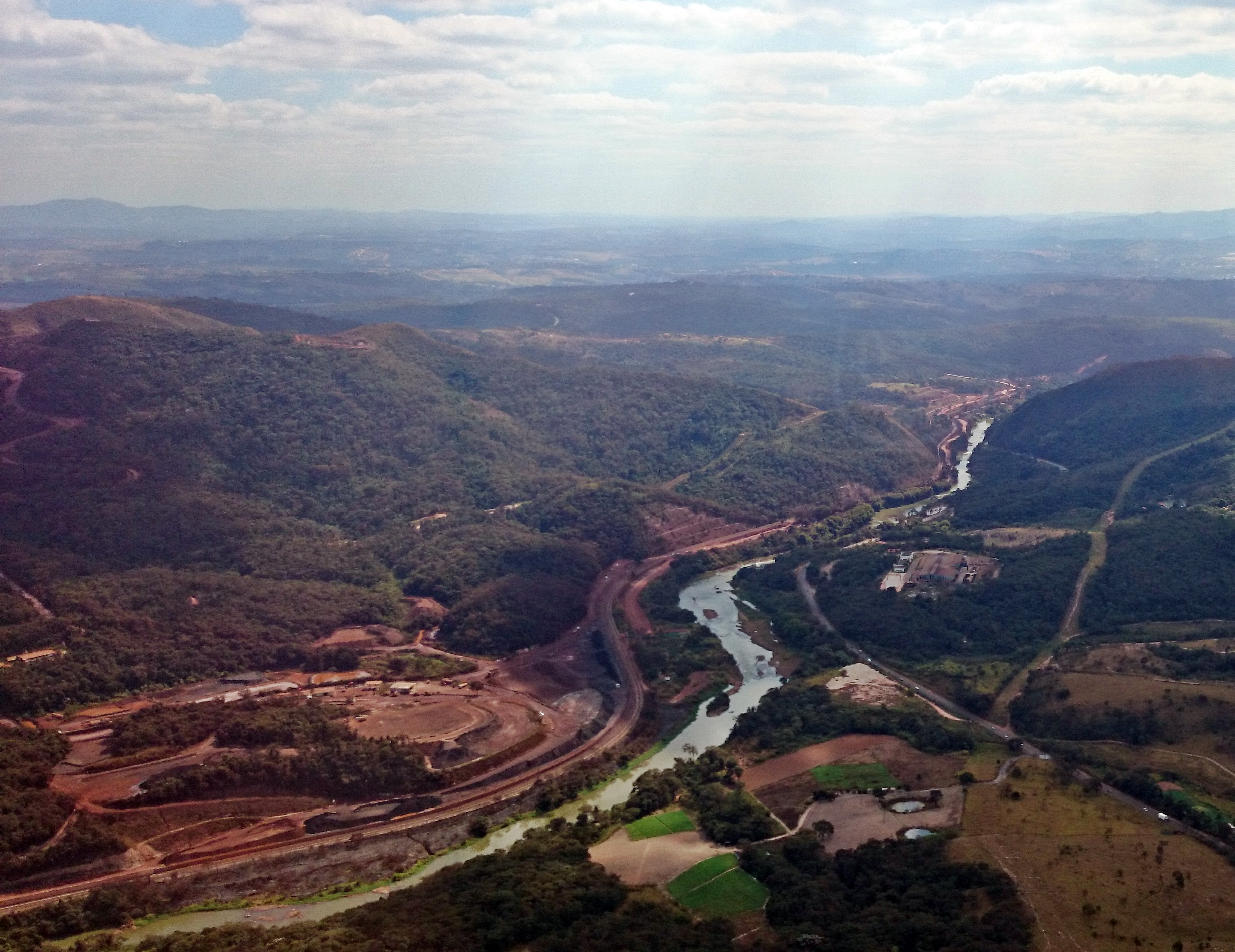 Rio Paraopeba no fecho do Funil, entre as serras Azul e Três Irmãos.